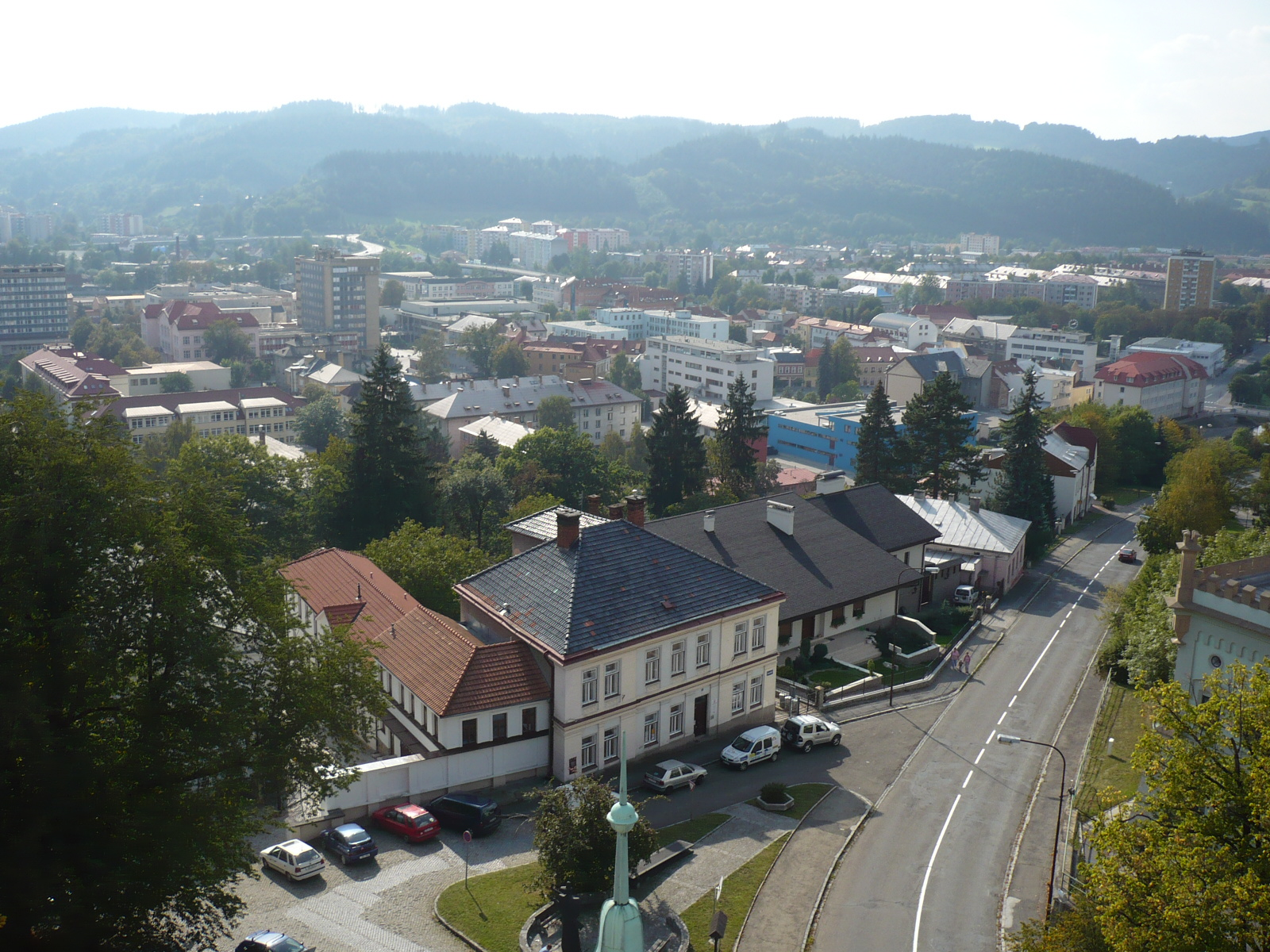 Castle Vsetin, lookout from Castle tower, the Czech Republic